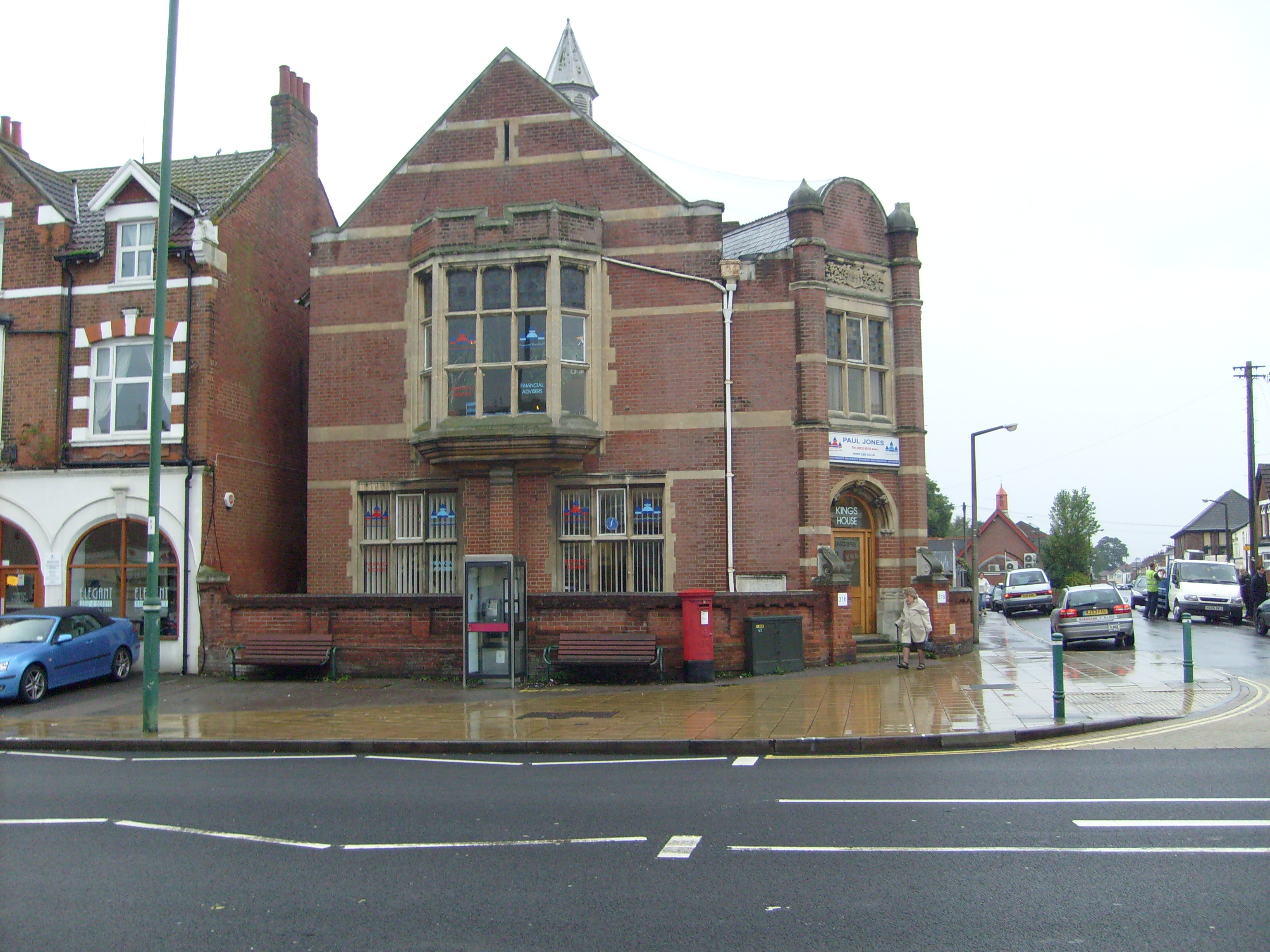 After it was a council building, it was a library and then a temporary police station while the main one was rebuilt. Now private offices.